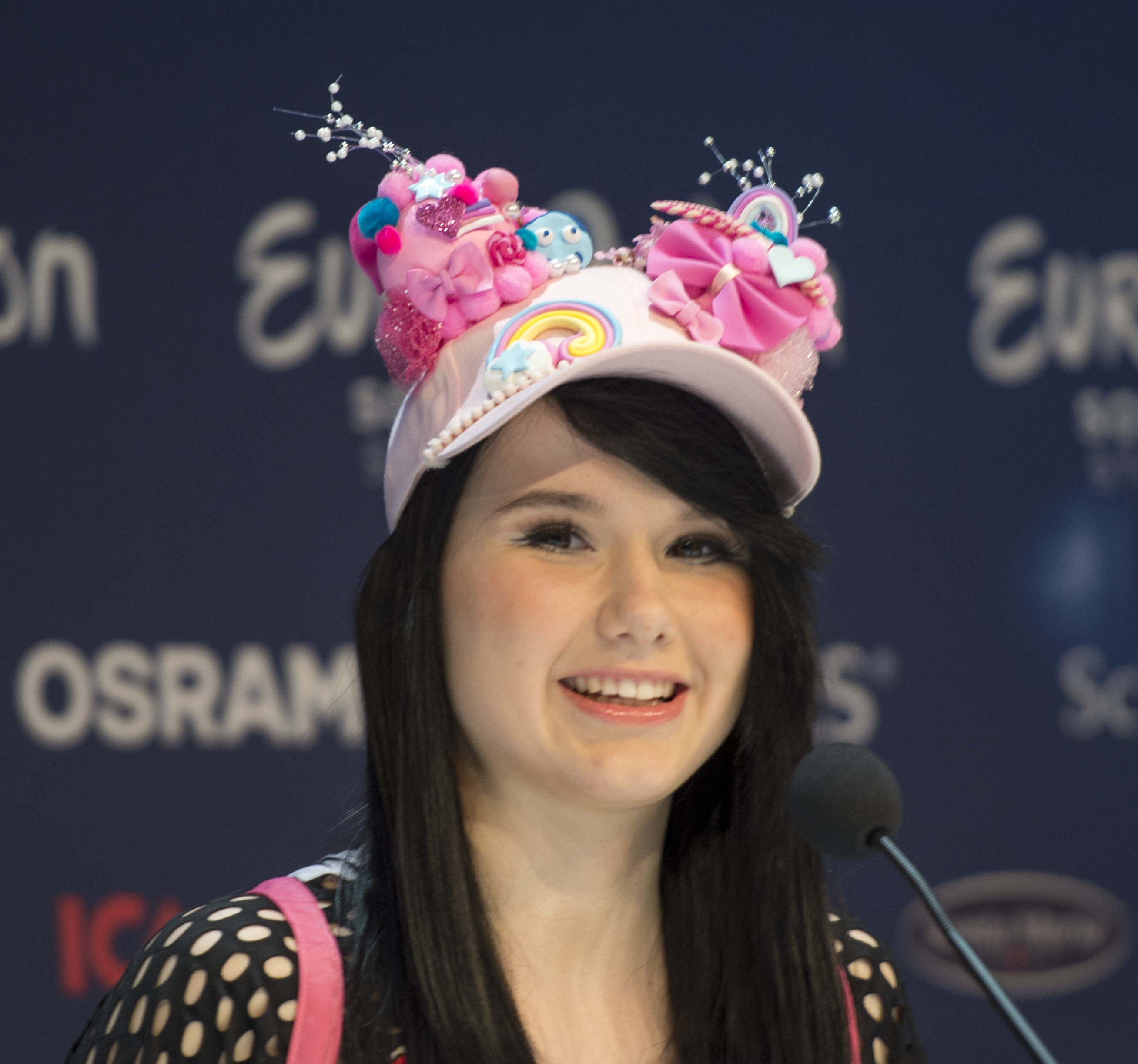 Jamie-Lee at a press conference during the Eurovision Song Contest 2016 in Stockholm. (Help translate this text)